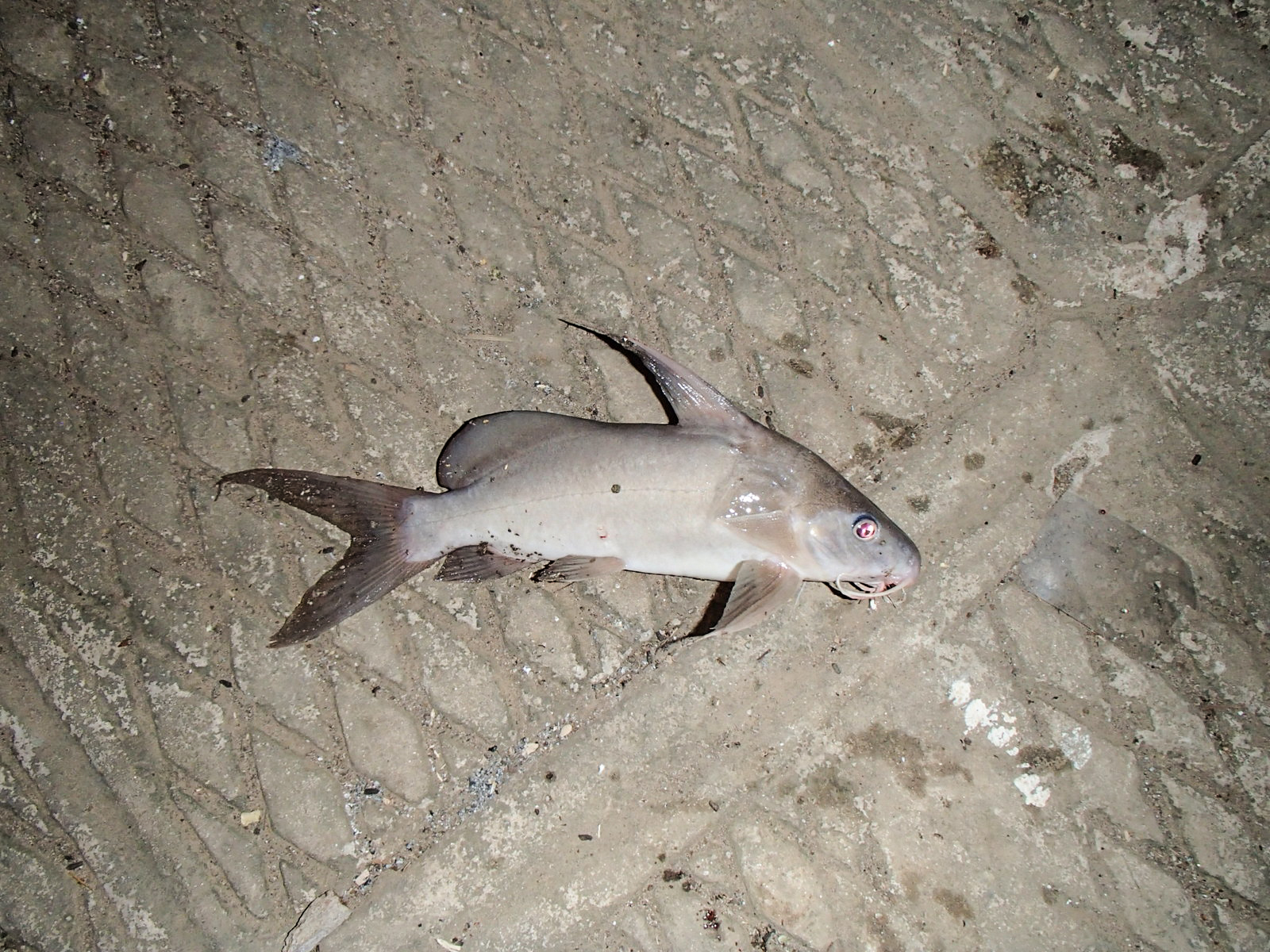 Catfish caught in Gambia